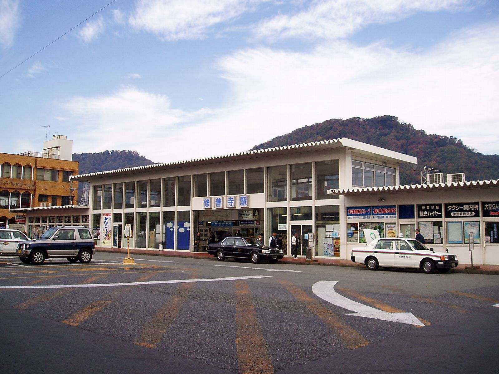 Isuhakone Railway Company, Shuzenji Sta. 2007.11.26 Photo by Cassiopeia_sweet.